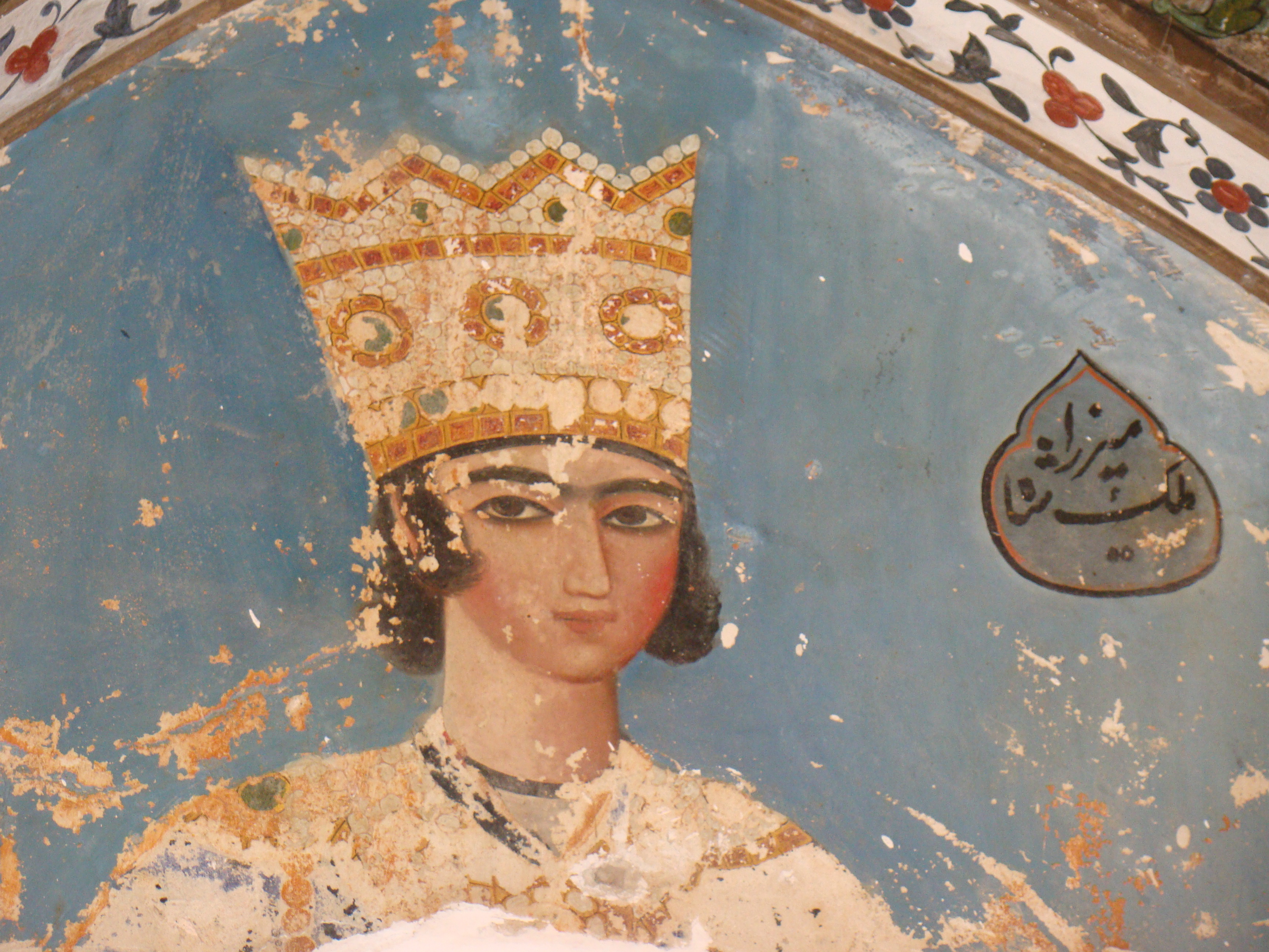 Graffiti painting